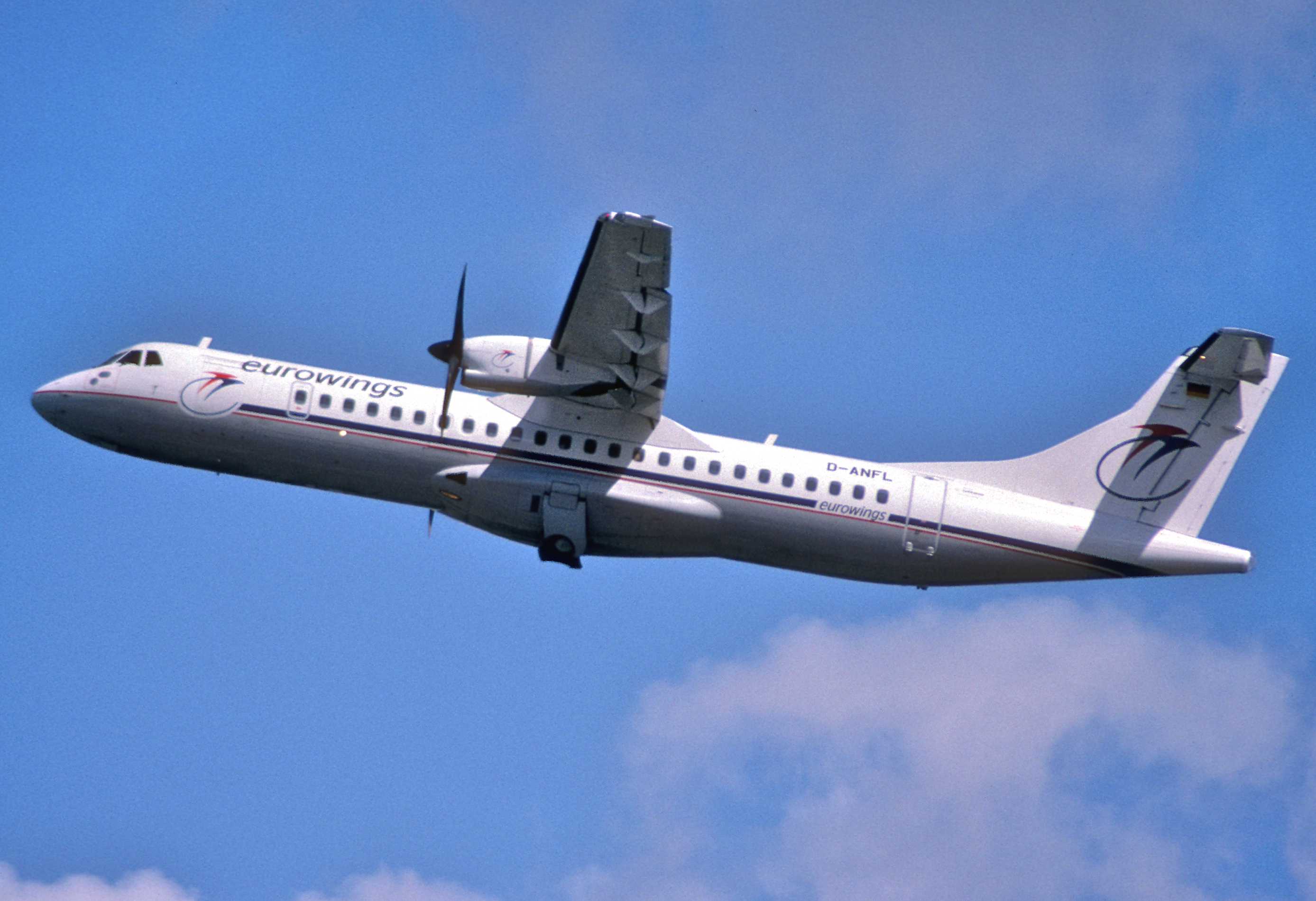 305am - Eurowings ATR 72-500; D-ANFL@TXL;06.07.2004